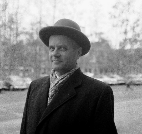 Photograph of the Finnish ecologist and professor Pentti Kaitera (1905–1985).